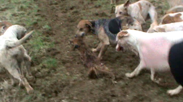 Hounds of The Heythrop Hunt maul a fox on 29 February 2012. This is a still image taken from video, taken by Lynn Sawyer, which formed part of evidence considered in court, prior to conviction of The Heythrop Hunt for illegal hunting of foxes.